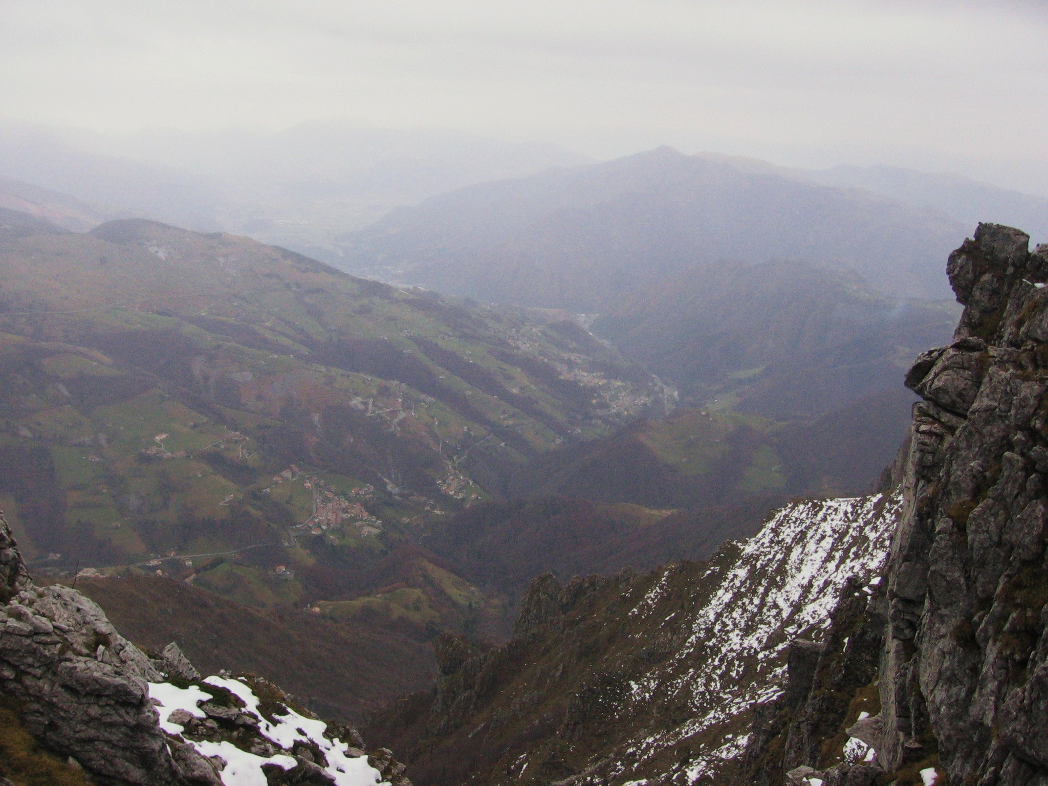 Riso Valley, Bergamo (Italy)